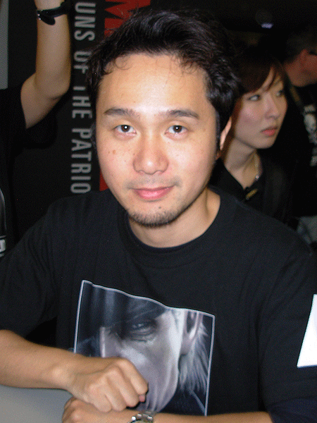 Yoji Shinkawa at a signing event in the Media Markt, location Amsterdam ArenA, Netherlands.